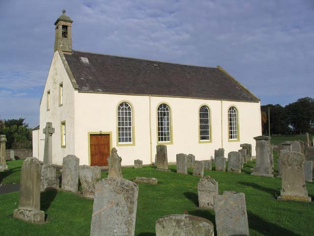 Sprouston Parish Church This rectangular four-bay church dates back to 1781, is harled and white painted, and has round headed main windows. It has a stone bellcote with ball finial. (Source: Borders and Berwick, An Architectural Guide by Charles Alexander Strang)